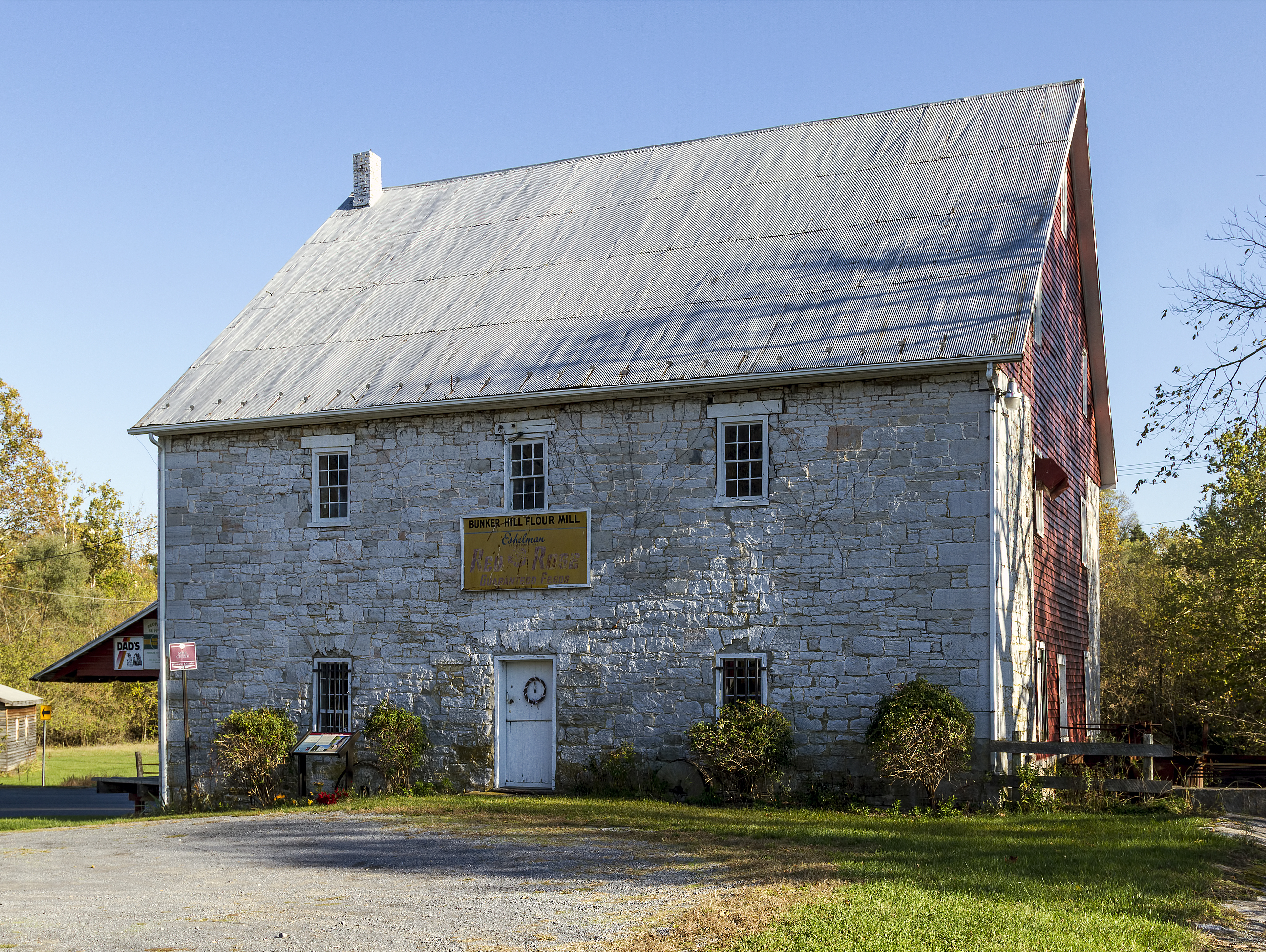 Bunker Hill Mill, Mill Creek Historic District, near Bunker Hill, West Virginia, USA